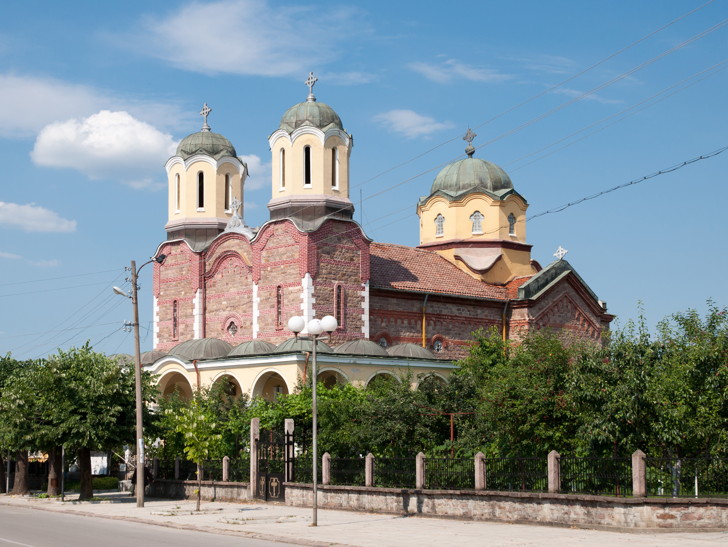 St. George church in Varshets, Bulgaria.